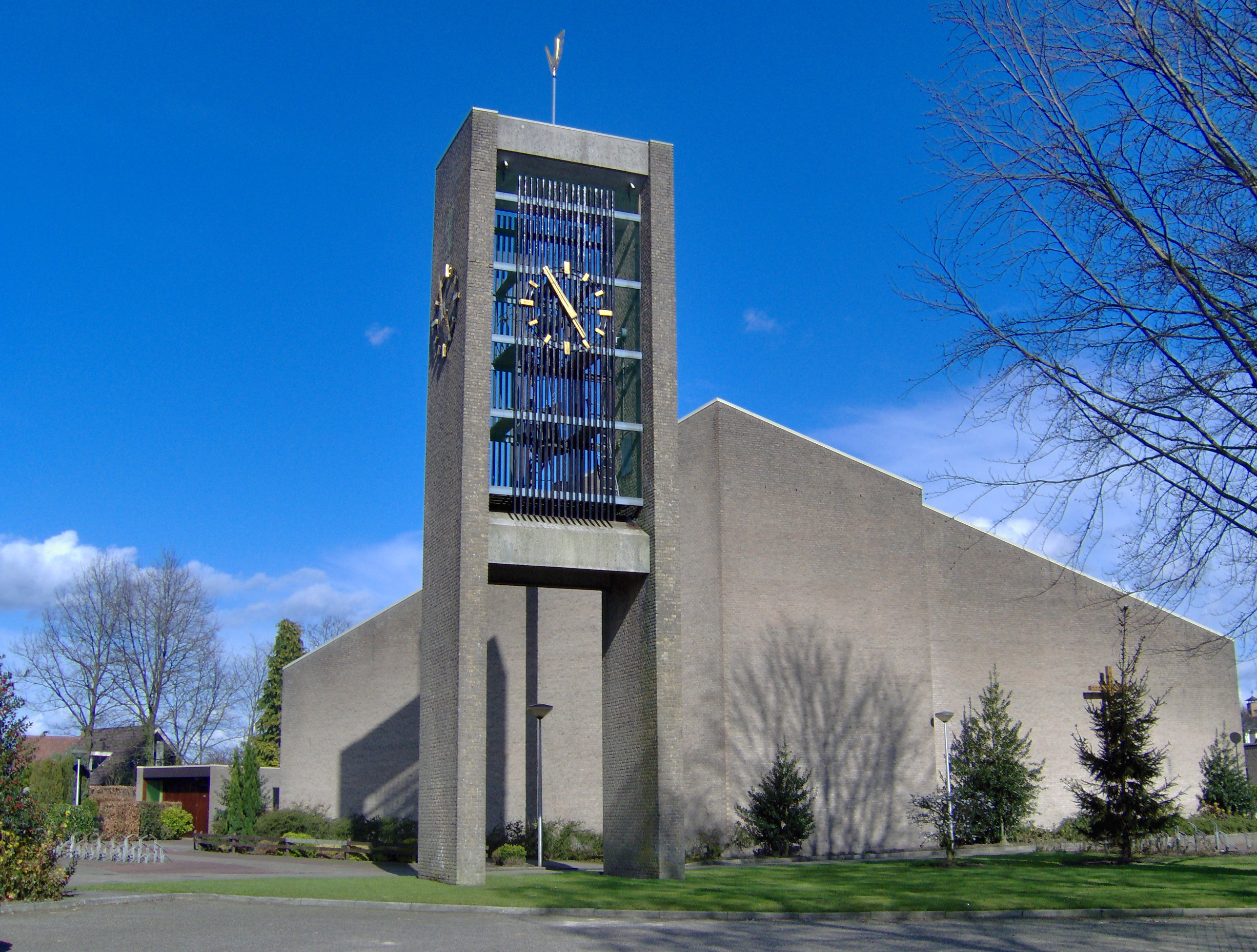 The roman catholic church Saint Remigius in Weerselo, municipality of Dinkelland, Overijssel, The Netherlands